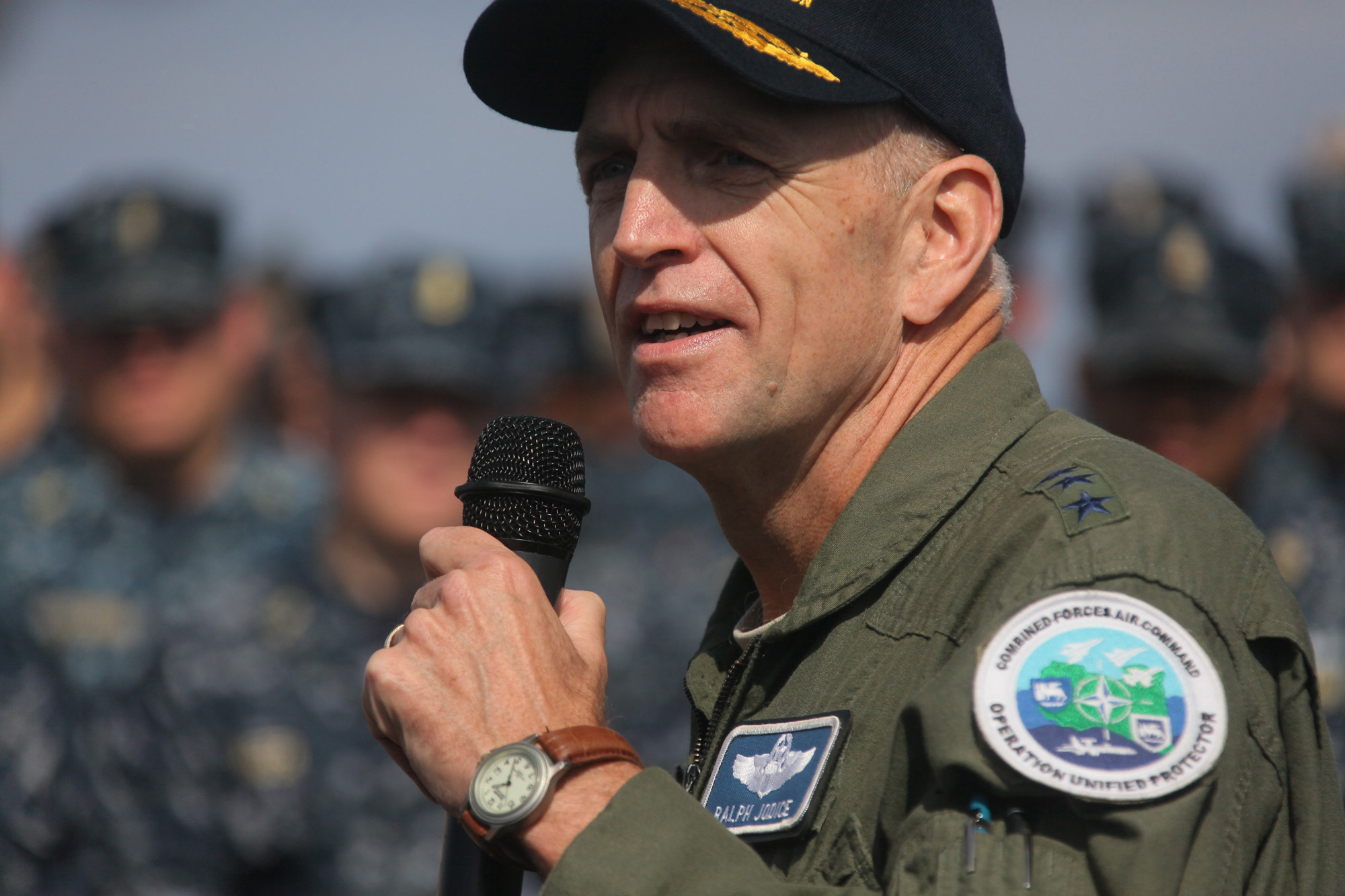 Air Force Lt. Gen. Ralph J. Jodice II, commander of NATO's Allied Air Component Command Headquarters at Izmir, Turkey, and a native of Brooklyn, N.Y., speaks to Marines and Sailors aboard USS Mesa Verde (LPD 19), Oct. 14, 2011. Jodice visited the USS Mesa Verde to encourage Marines and Sailors during deployment. The Marines and Sailors of the 22nd MEU are currently deployed with Amphibious Squadron 6 (PHIBRON 6) aboard USS Bataan Amphibious Ready Group (BATARG) and will continue to train and improve the MEU’s ability to operate as a cohesive and effective Marine Air Ground Task Force. The 22nd MEU is a multi-mission, capable force, comprised of an Aviation Combat Element, Marine Medium Tilt Rotor Squadron 263 (Reinforced)(VMM-263 (REIN)); a Logistics Combat Element, Combat Logistics Battalion 22(CLB 22); a Ground Combat Element, Battalion Landing Team, 2nd Battalion, 2nd Marine Regiment(BLT 2/2) and its Command Element.